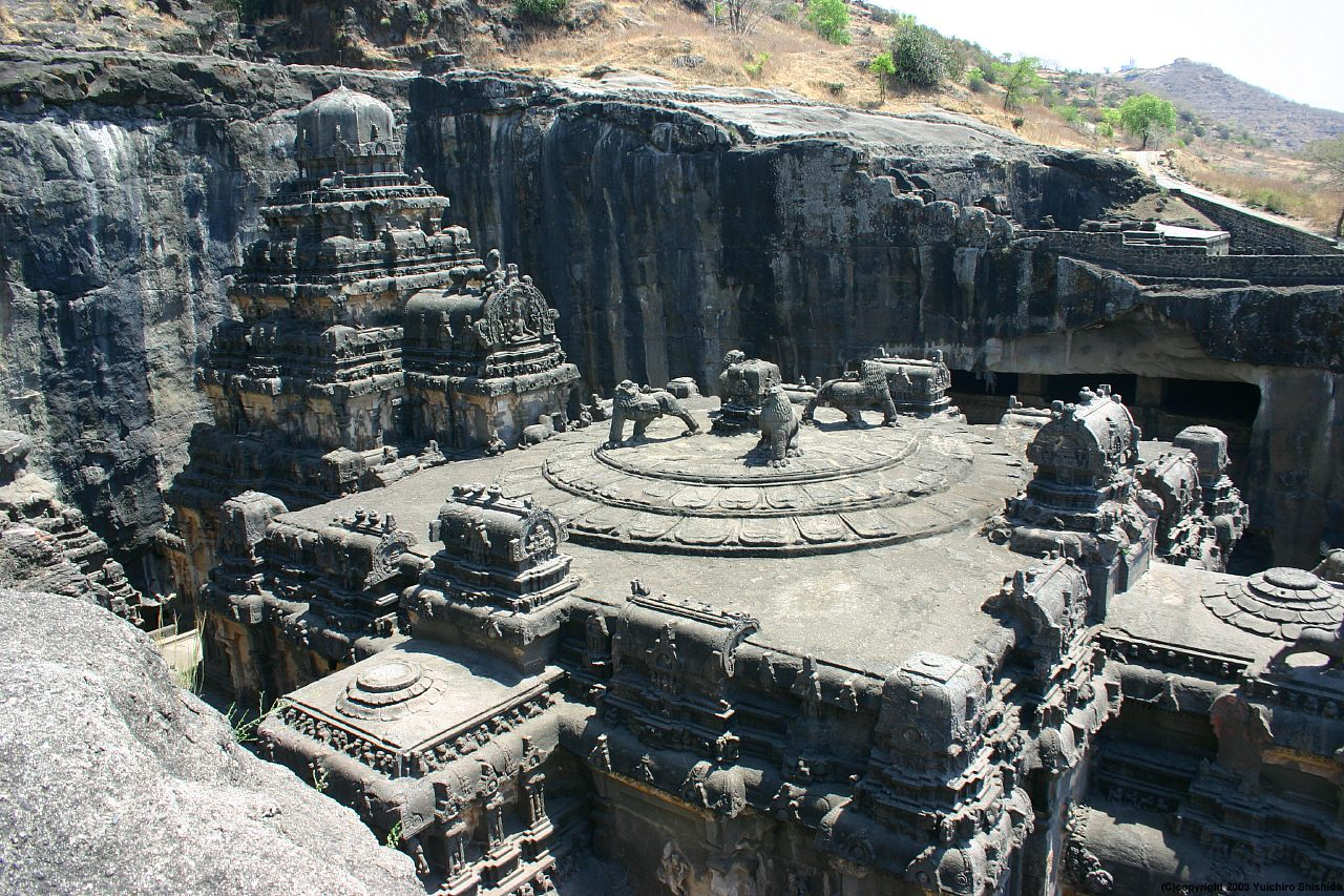 Ellora caves. Cave 16. Kailasanatha Temple.